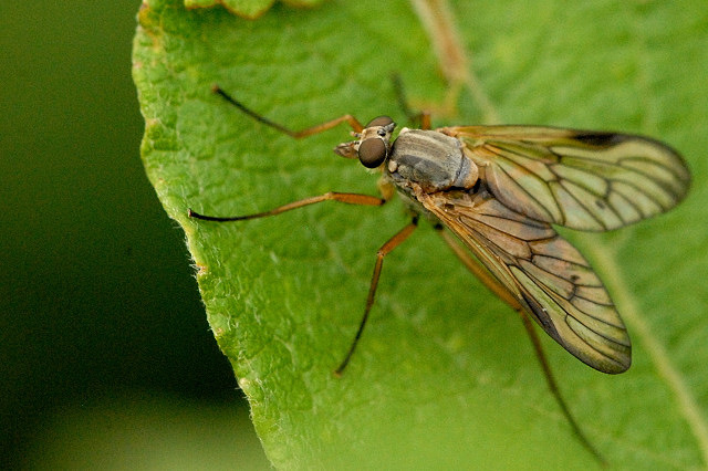 Rhagio vitripennis from Commanster, Belgian High Ardennes .